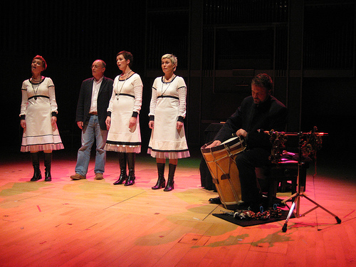 Trio Mediaeval concert at the University of York. Mentor John Potter was asked to join them for their encore. From left: Linn Andrea Fuglseth, John Potter, Torunn Østrem Ossum, Anna Maria Friman, Birger Mistereggen on percussion.